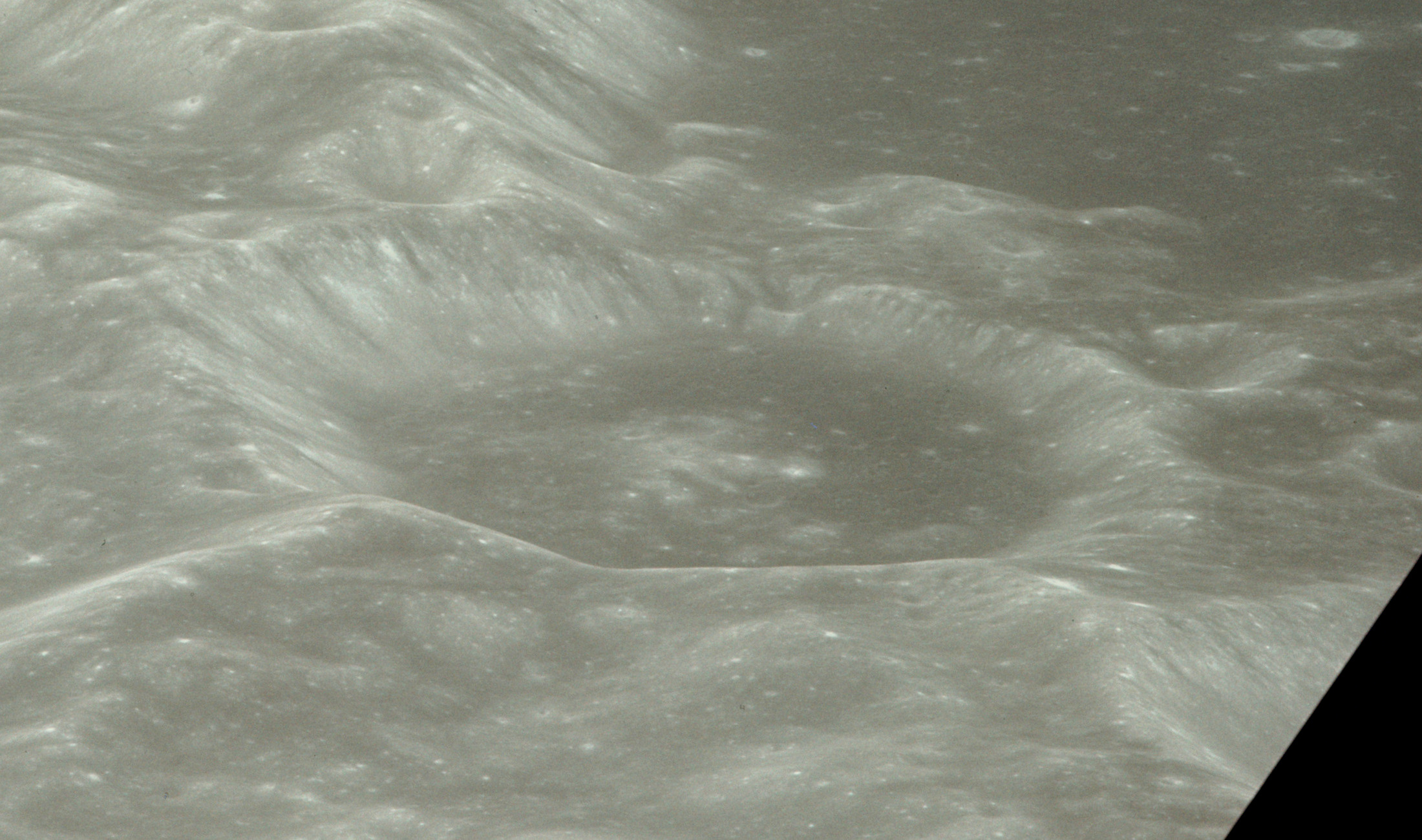 Highly oblique view of Shapley crater, south of Mare Crisium, on the moon. Rotated and cropped, then brightness and contrast adjusted from original.